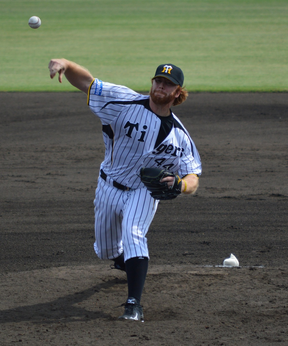 Blaine Boyer, pitcher of the Hanshin Tigers, at Hanshin Naruohama Baseball Ground.